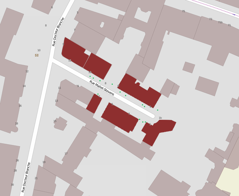 Immeubles formant la rue Mallet-Stevens: 1bis, 3, 4, 5, 6, 7, 10, 12 rue Mallet-Stevens ; 9 rue du Docteur-Blanche, Paris, France. .